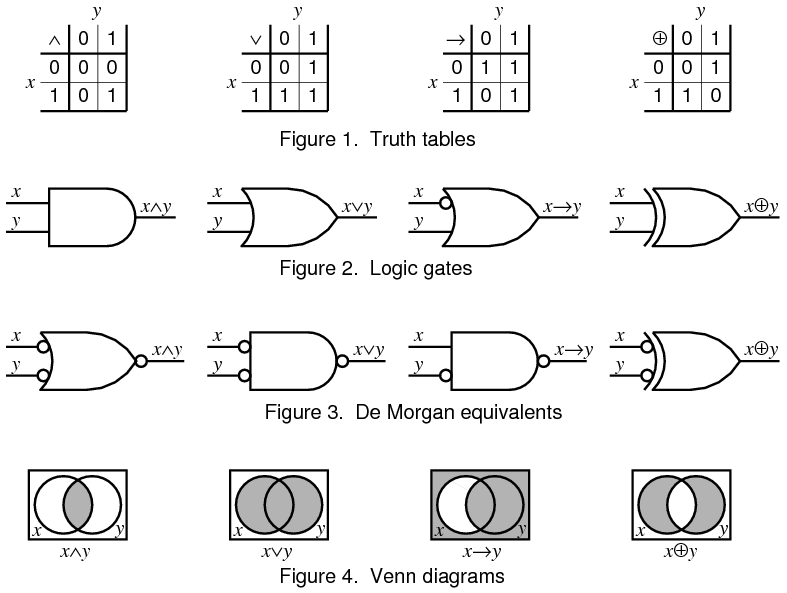 Four figures for Boolean algebra article